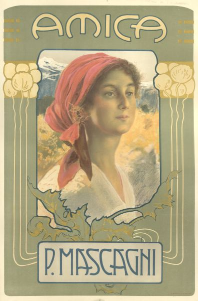 Original Amica Poster.